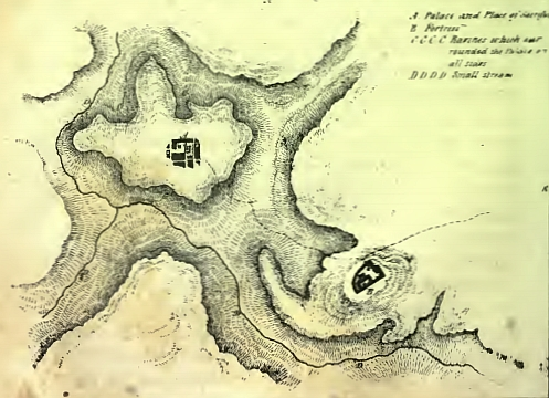 Map of the ruins of Q'umarkaj (Utatlán), Santa Cruz del Quiché, Guatemala, drawn by Frederick Catherwood during his visit to the site in 1840. Legend: A. Palace and Place of Sacrifice (later identified as the Tohil Temple). B. Fortress. (probably the ruins of Pismachi') C. Ravines which surrounded the palace on all sides D. Small stream